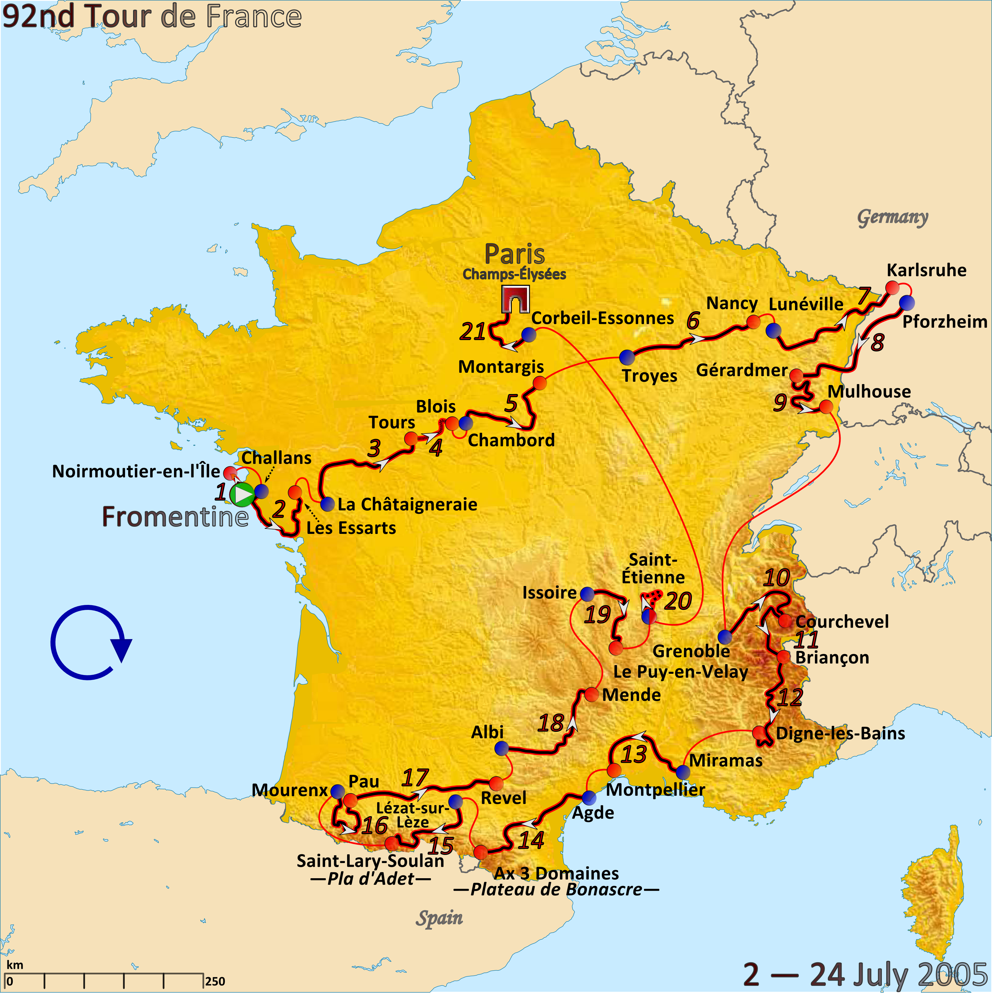 Map of the 2005 Tour de France created in Inkscape